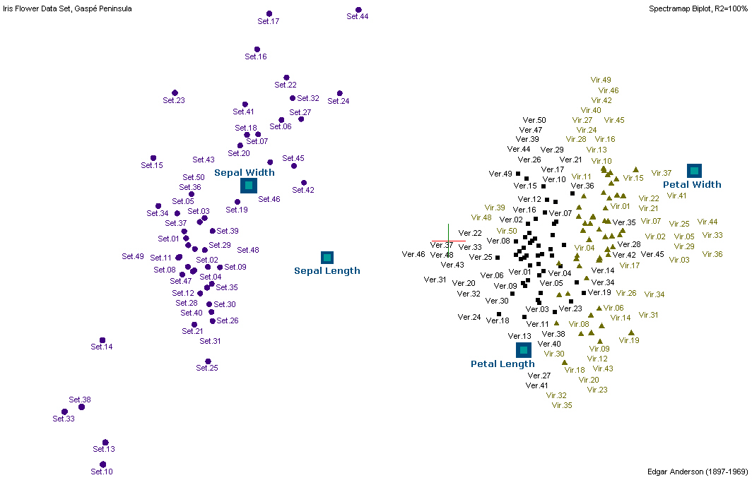 Biplot of the Spectral Map Analysis of the Iris flower data set collected by Edgar Anderson (1897-1969). The biplot visualizes 100% of the original data set variance as contrast. The biplot barycenter is indicated with the red-green cross hair. The measurements are visualized as squares. The objects are visualized with three symbols by Iris flower type: dots for setosa, squares for versicolor and upward triangles for virginica. The JPG was created with Spectramap.